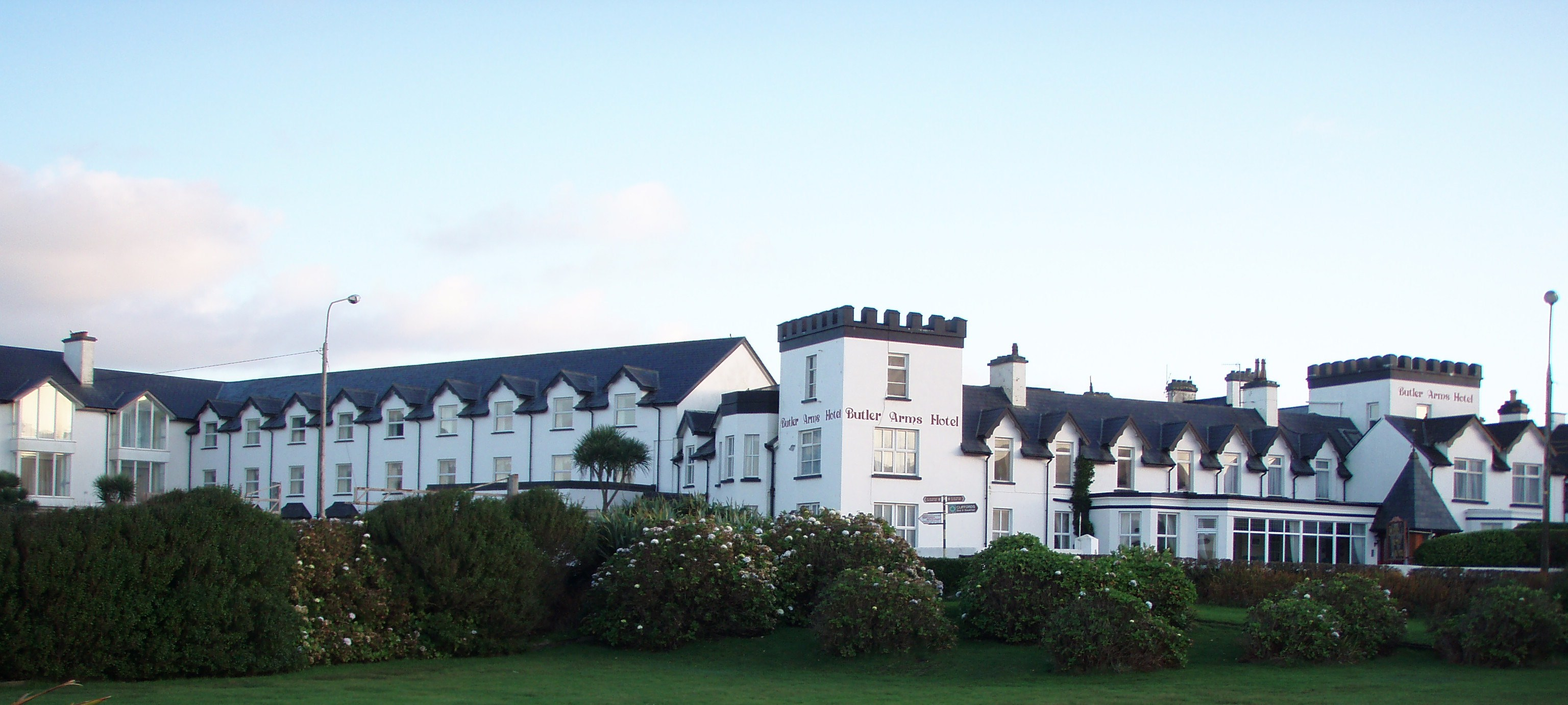 The Butler Arms Hotel in Waterville, County Kerry on November 1, 2011: the last of the hydrangeas are dying but the sun reflects from Ballinskelligs Bay